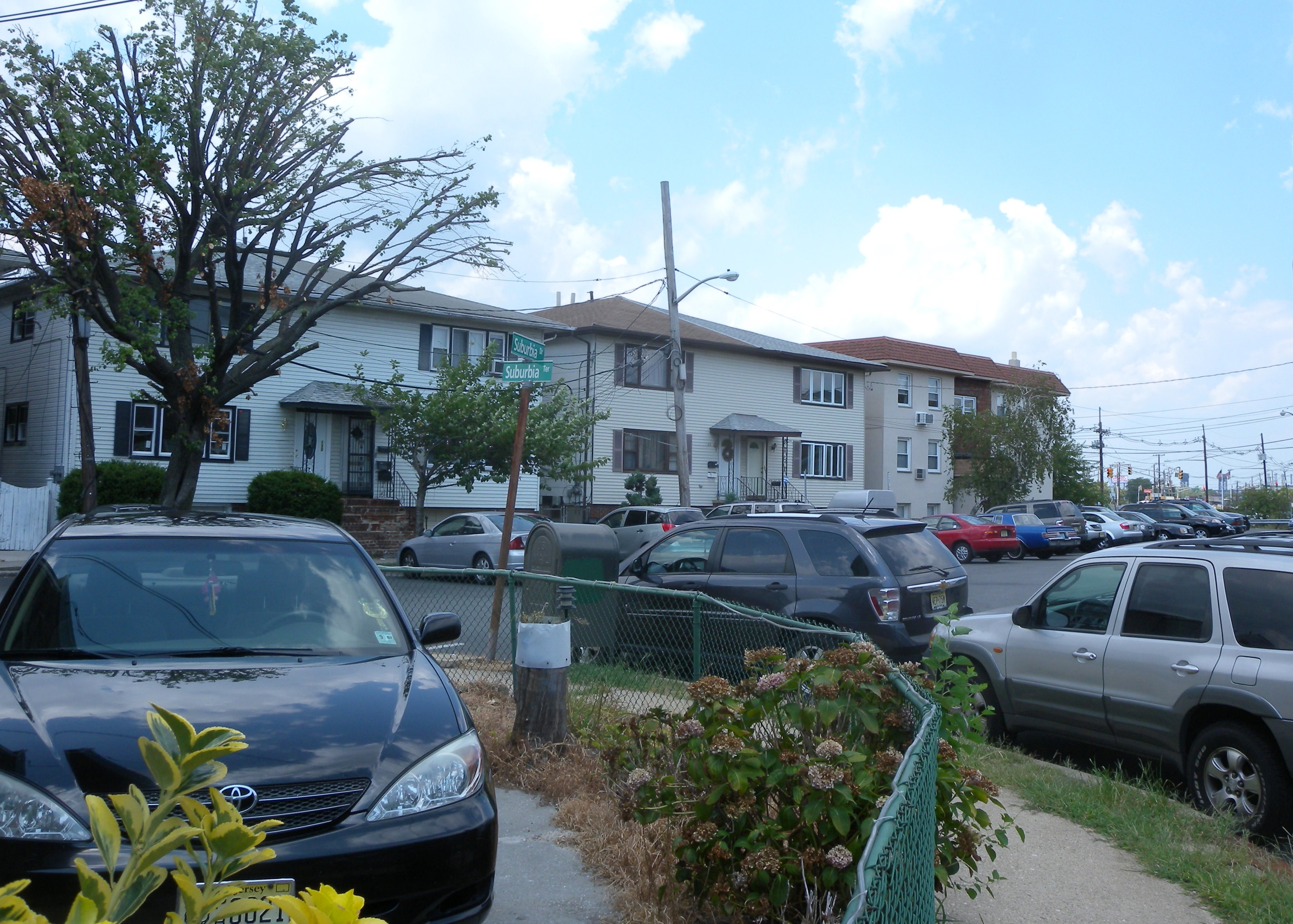 Looking northwest at cars parked at Suburbia Drive and Suburbia Terrace in northern Suburbia, on a mostly cloudy midday.